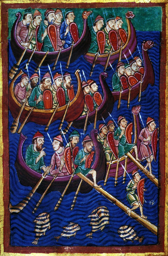 An image from the Life of St Edmund, dating to about 1130. The image appears on folio 24 of MS 736 of the Pierpont Morgan Library in New York.